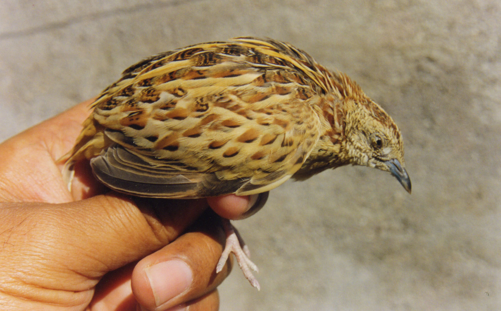 Small Buttonquail Turnix sylvaticus Amravati (3). Maharashtra, India